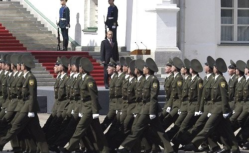 Vladimir Putin presidential inauguration 2004